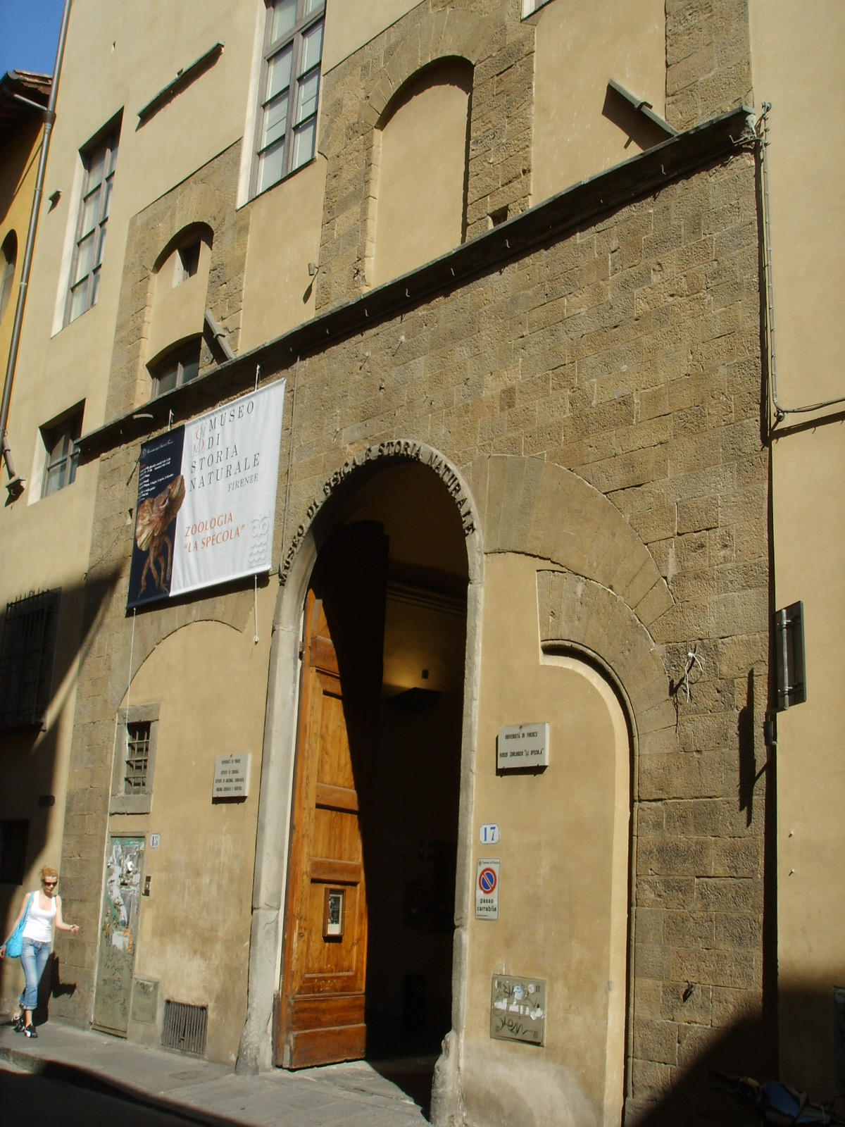 Specola Museum in Florence, Italy